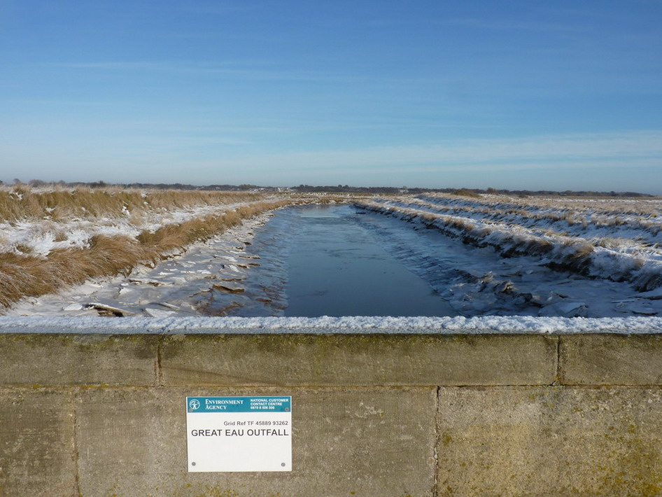 The tidal reach of the Great Eau from the bridge